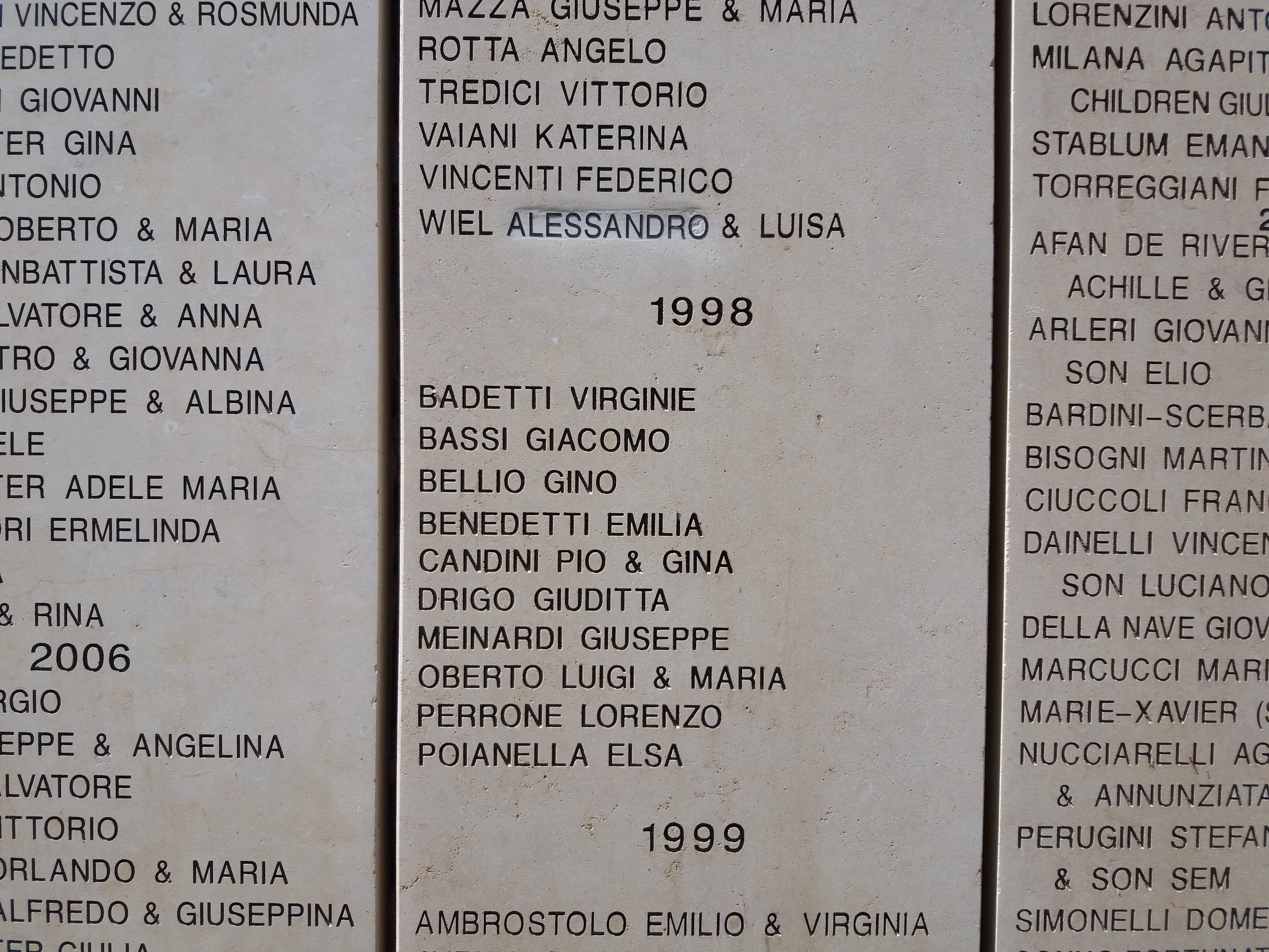 Name of Virginie Badetti on the wall of honor in Yad Vashem